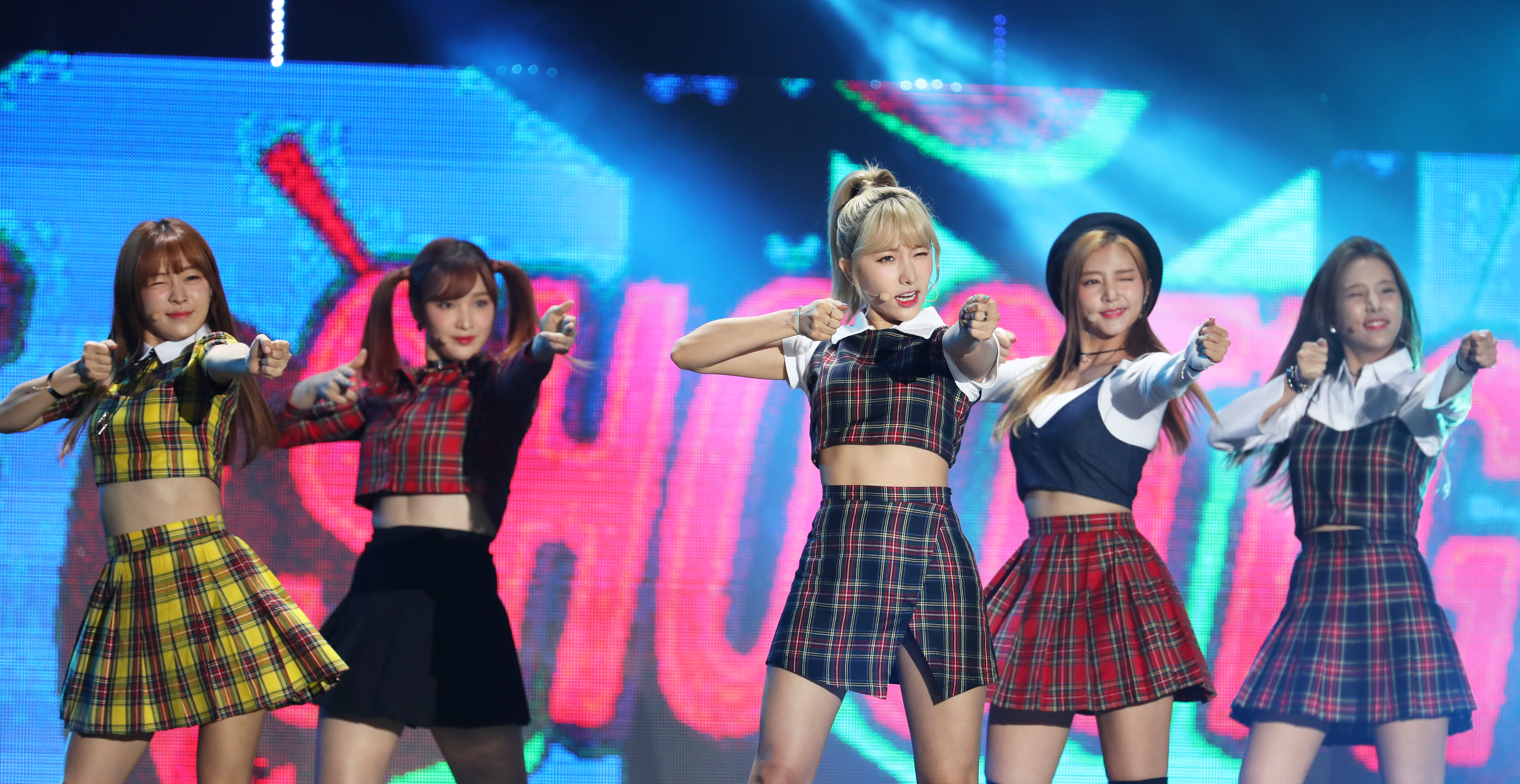 Korea Sale Festa. Opening Ceremony. September 30, 2016. Yeongdongdae-ro, Gangnam-gu, Seoul. Ministry of Culture, Sports and Tourism. Korean Culture and Information Service . Official Photographer : Jeon Han